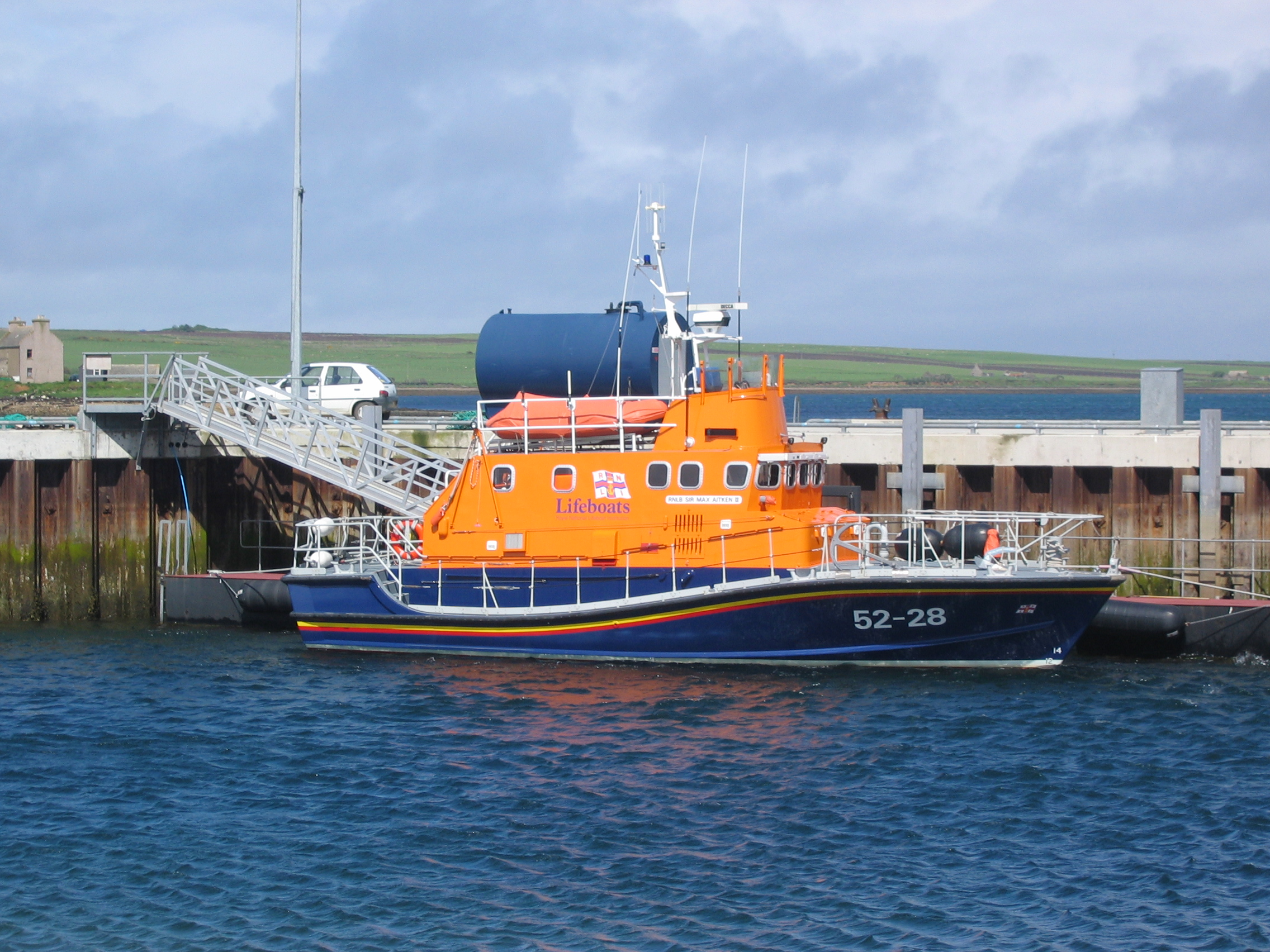 RNLI Lifeboat, Longhope, Orkney